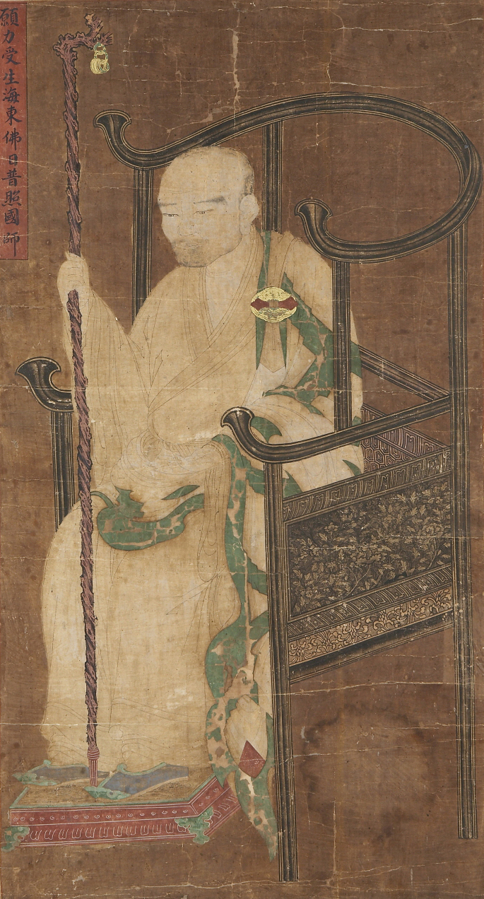 Portrait of Jinul in Donghwasa, Treasure of South Korea No. 1639